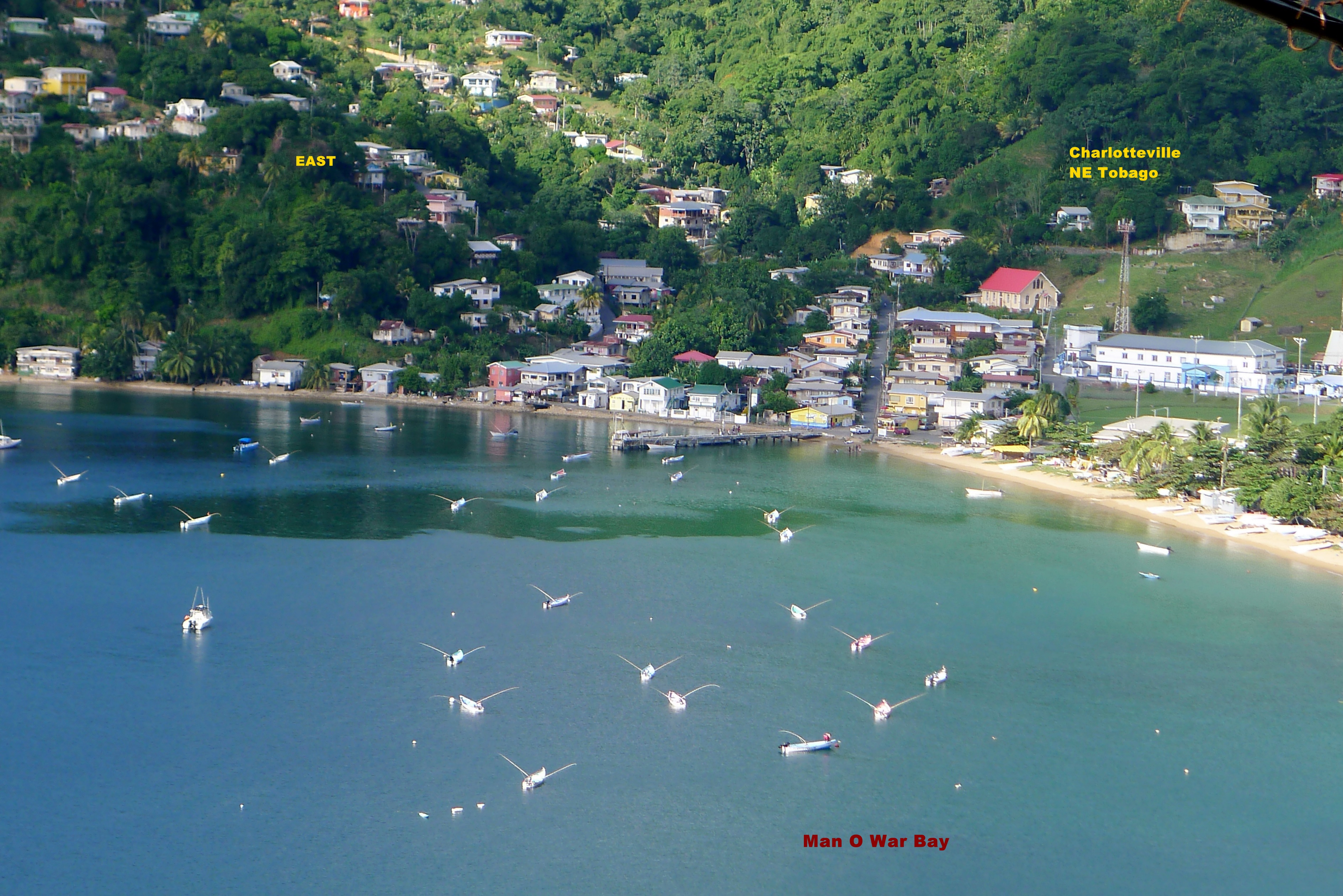 Charlotteville - Small town on northern tip of the island of Tobago, West Indies.